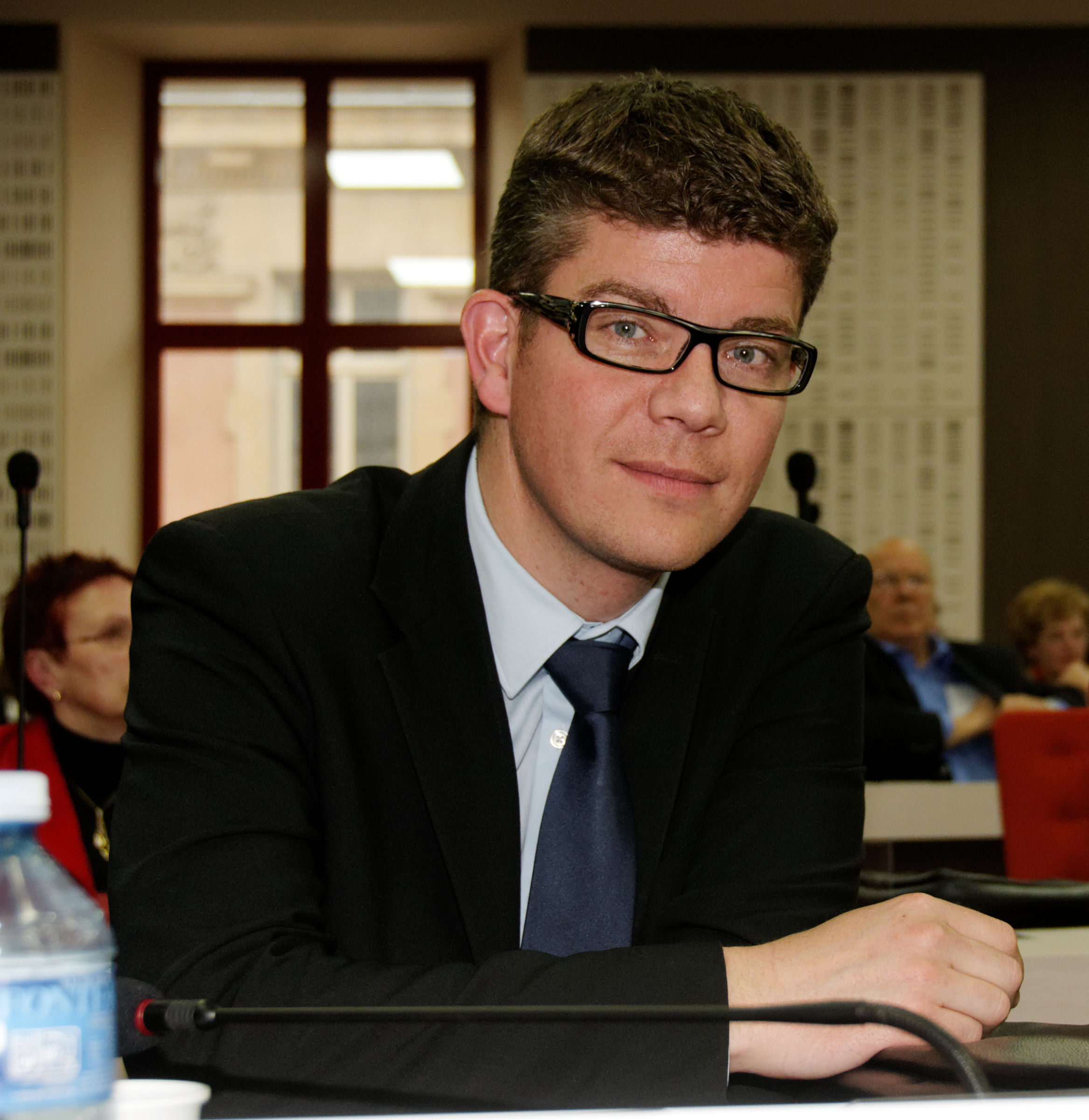 Personality rights warningAlthough this work is freely licensed or in the public domain, the person(s) shown may have rights that legally restrict certain re-uses unless those depicted consent to such uses. In these cases, a model release or other evidence of consent could protect you from infringement claims.